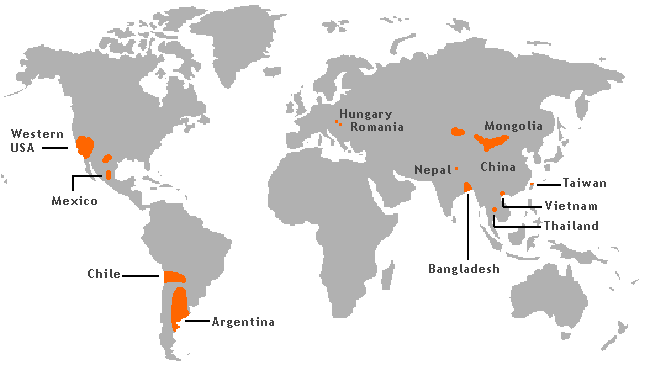 Arsenic risk areas worldwide Data source: "Arsenic contamination in south-east asia region: Technologies for arsenic mitigation" by M. Feroze Ahmed of the World Bank Group's "Water Week 2004" forum. Adapted from: File:Arsenic contamination areas.jpg